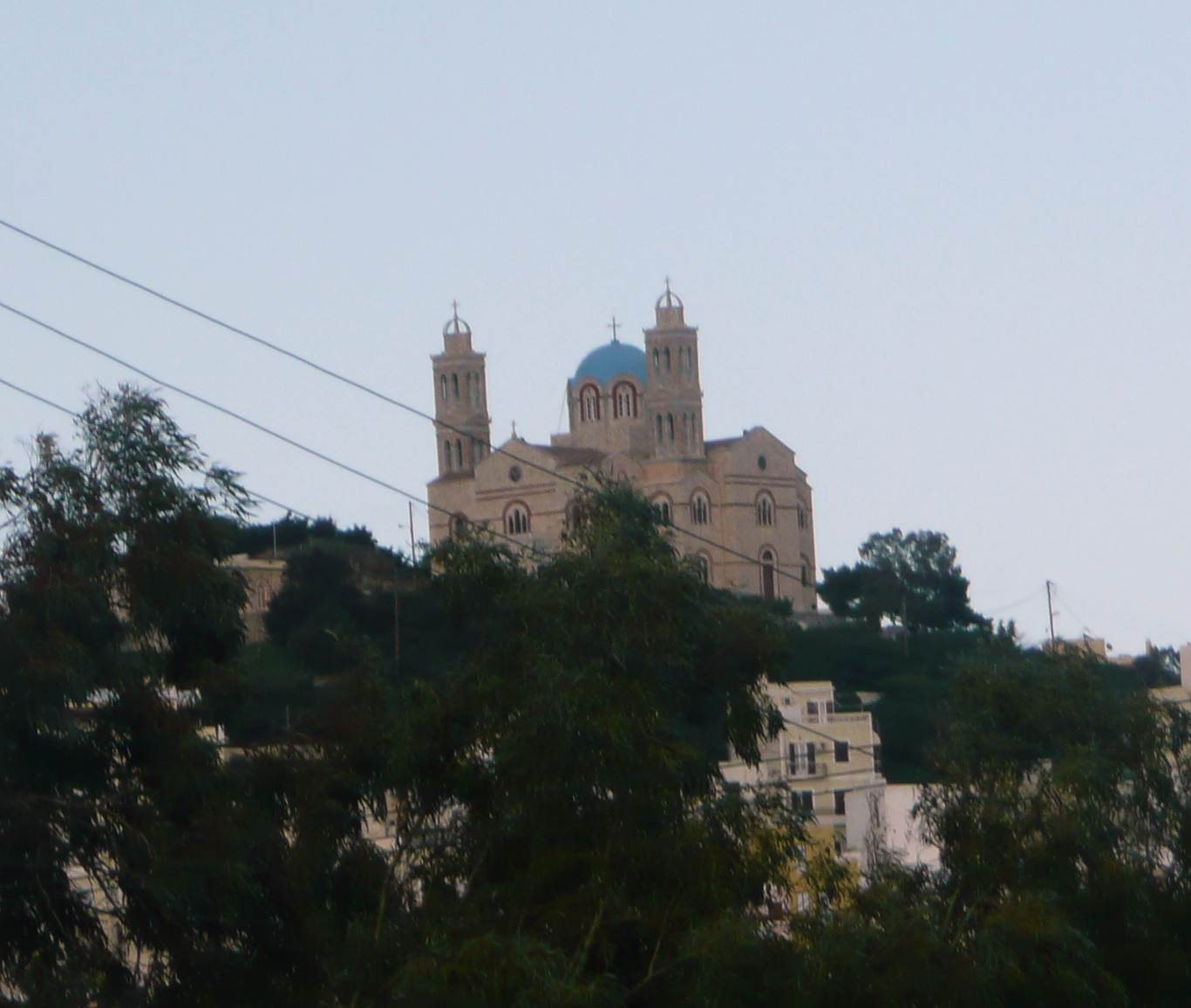 Church of the Resurrection of Christ in Ermoupoli